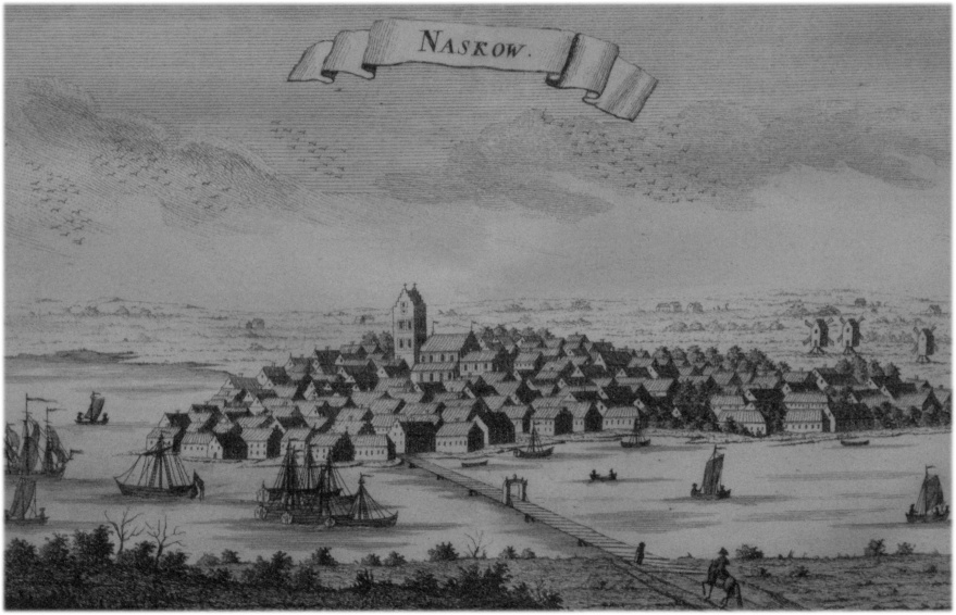 copper plate illustration of the town of Nakskov, Denmark, probably 17th century, seen from the south across the strait separating the inner and outer portions of the fjord.